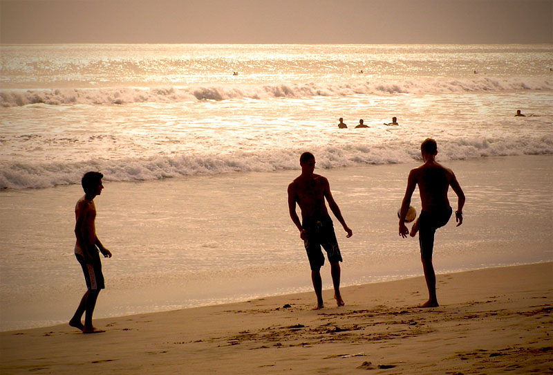 Beach soccer in Bali